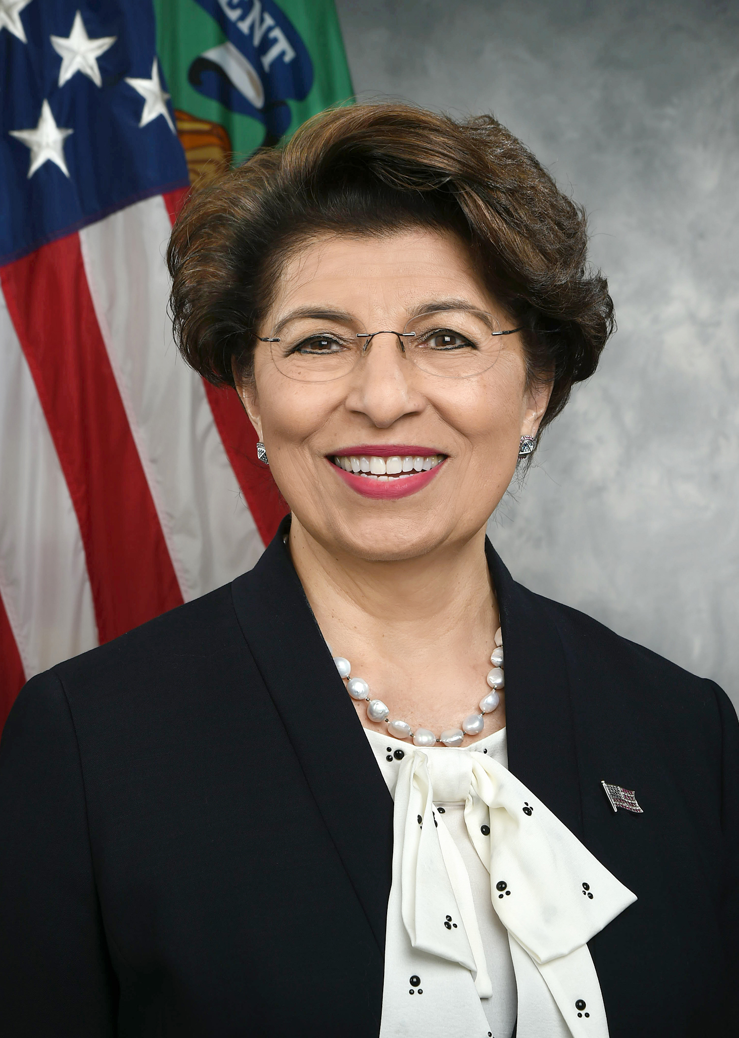 official portrait of jovita carranza